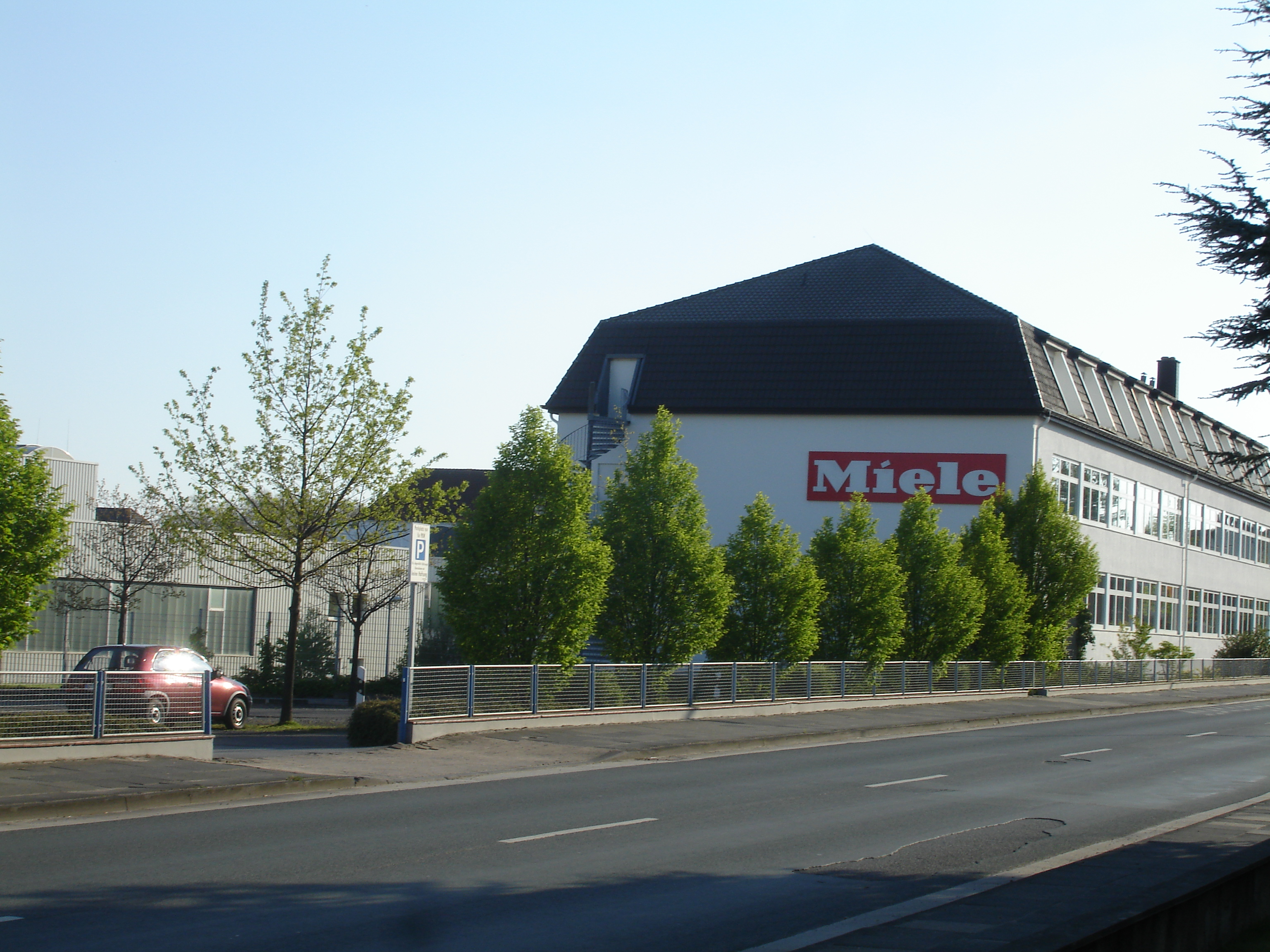 Town of Bünde, District of Herford, North Rhine-Westphalia, Germany: Mielefactory